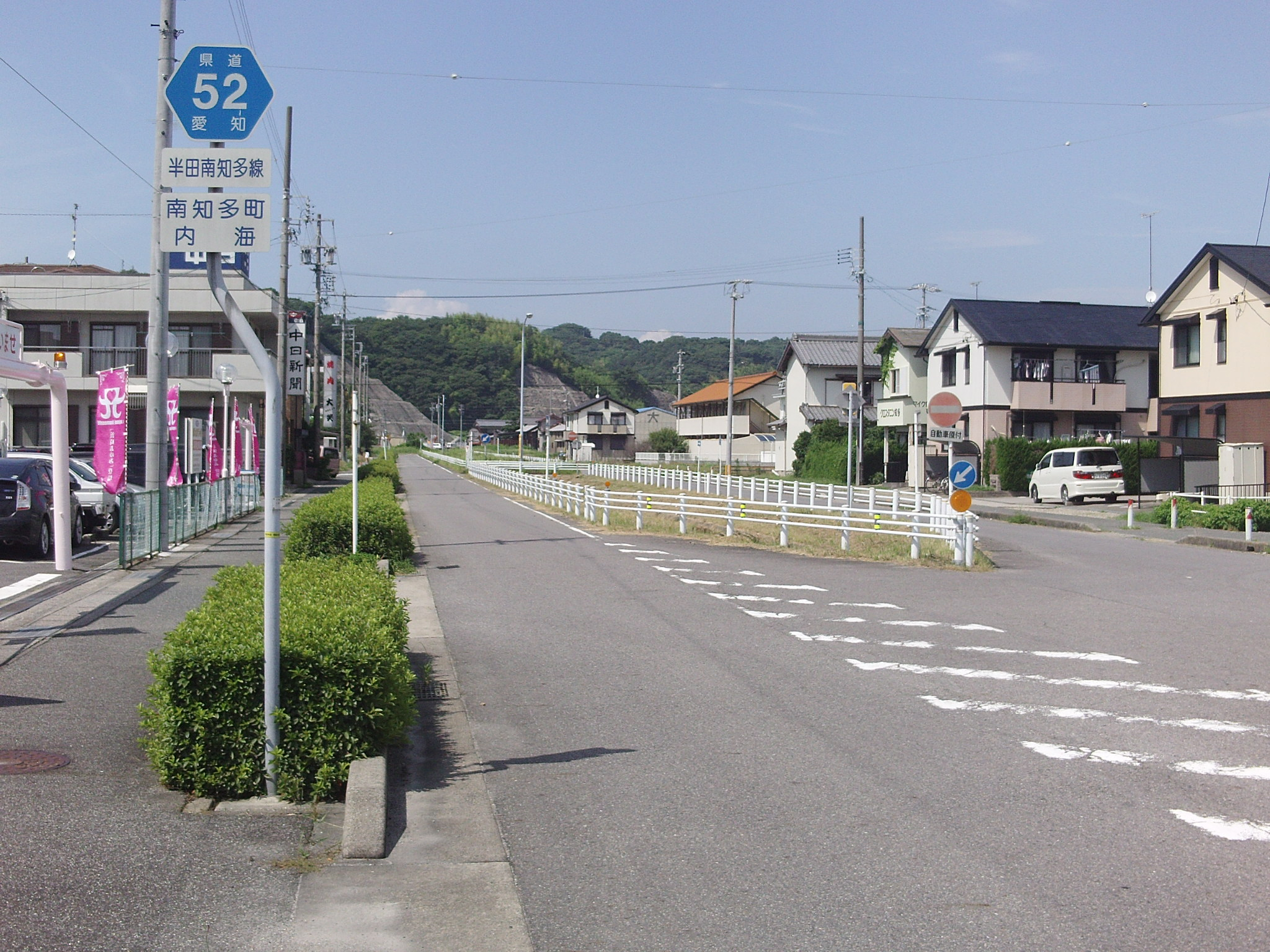 The Aichi Prefectural Road Route 52 by-pass in Utsumi, Minamichita Town